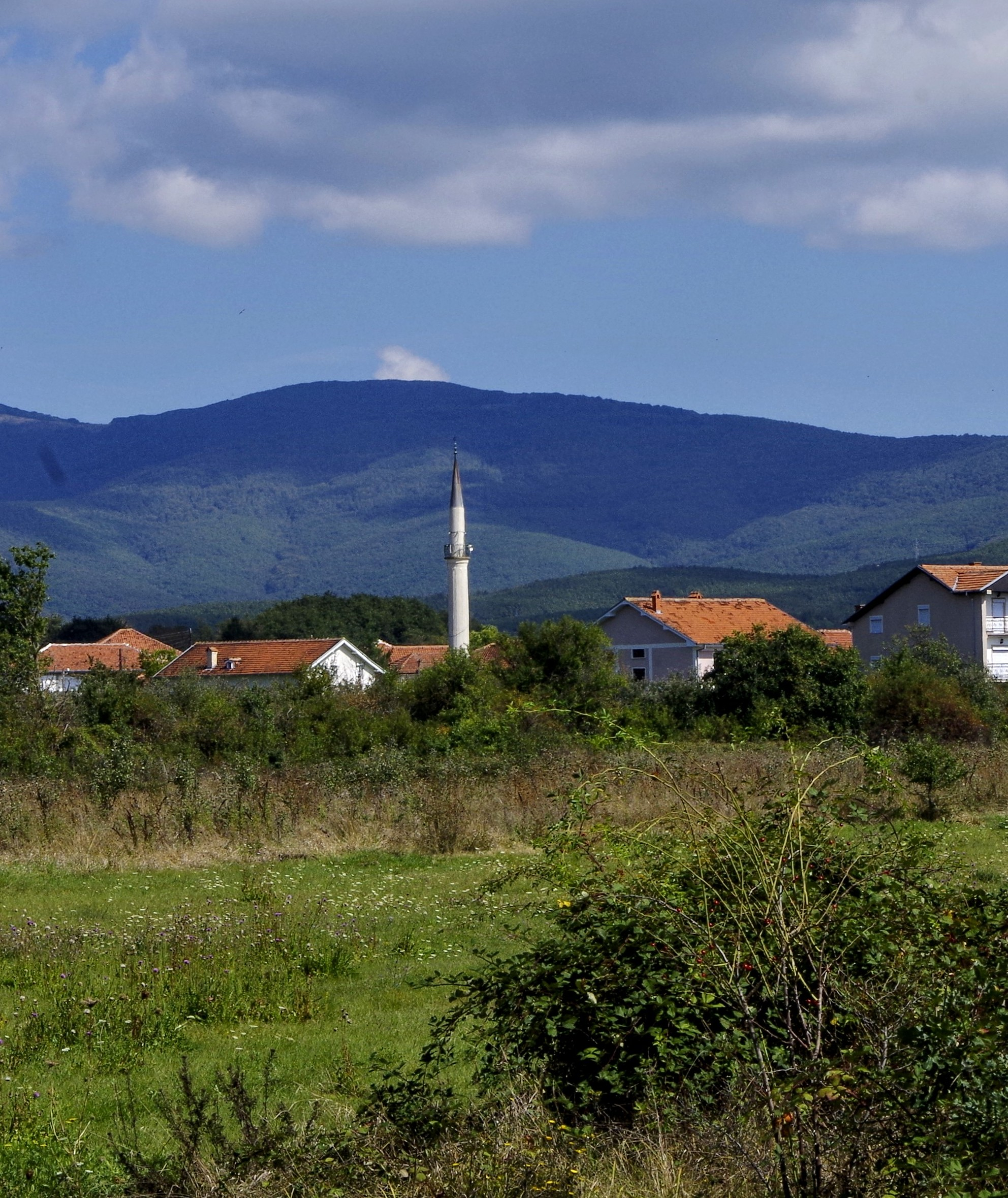 View of the village Kozjak